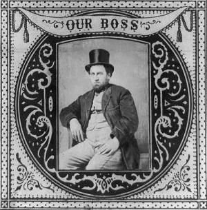 1869 tobacco label portraying Boss Tweed, from